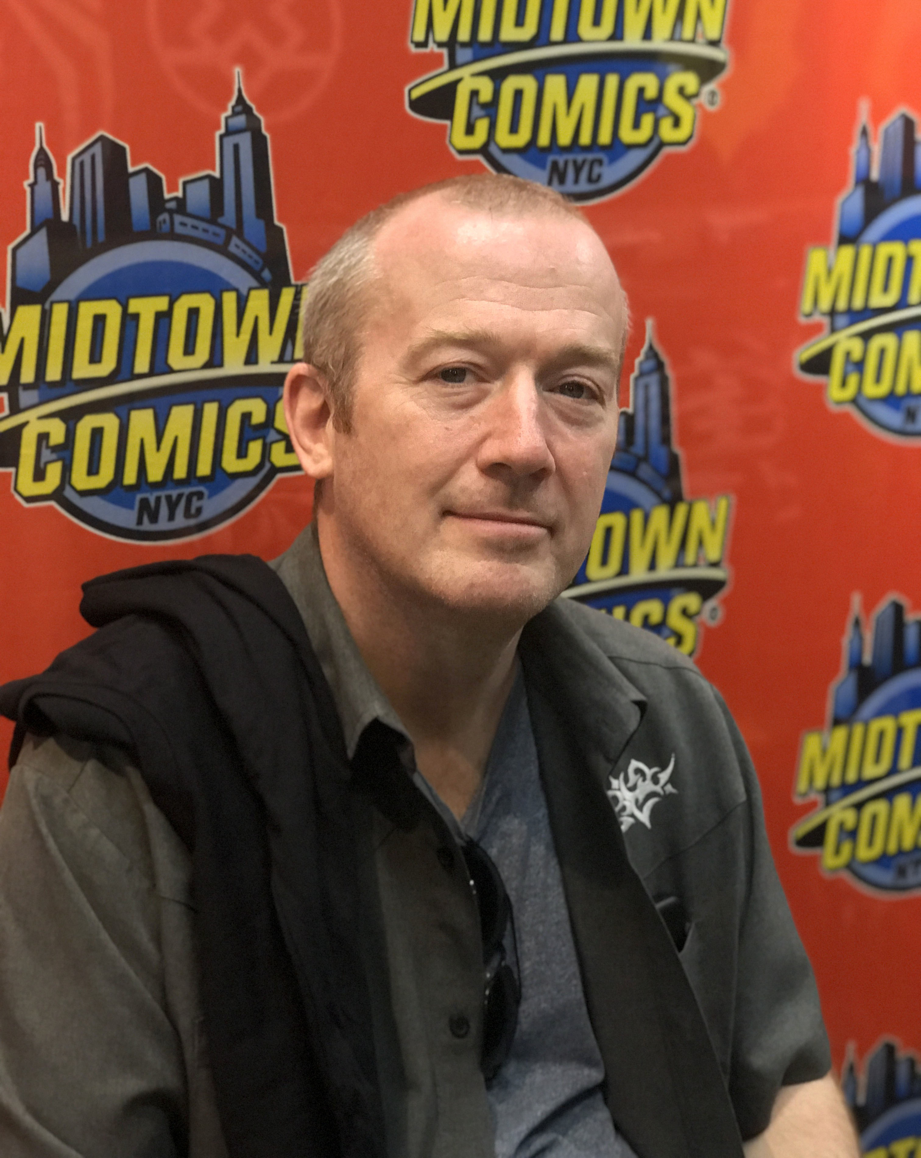 Comics writer and Garth Ennis at a Saturday, June 1, 2019 signing for The Boys Omnibus Vol 1 at Midtown Comics Downtown in Manhattan. This photo was created by Luigi Novi. It is not in the public domain, and use of this file outside of the licensing terms is a copyright violation.